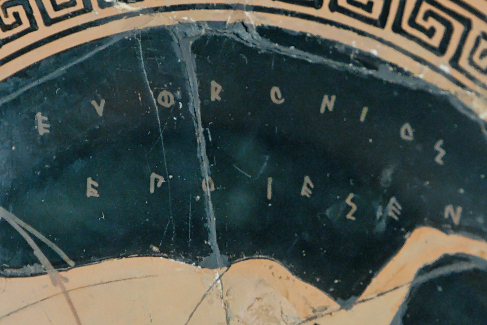 Euphronios' signature (ΕΥΦΡΟΝΙΟΣ ΕΠΟΙΕΣΕΝ) as potter, rotated 90° anticlockwise, detail from a scene representing a rider. Tondo from an Attic red-figure kylix, ca. 500–490 BC. From Vulci.